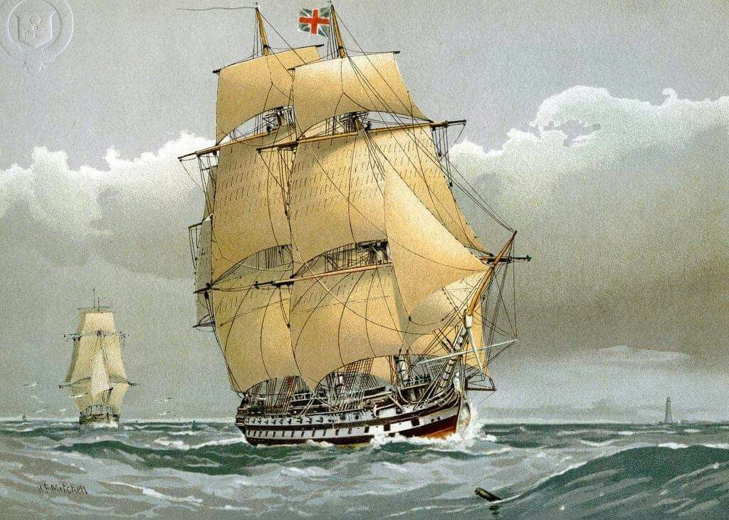 A 74 gun Royal Navy ship of the line, A print dated c1794. c1890-c1893). Artist: William Frederick Mitchell A 74 gun Royal Navy ship of the line, c1794 (c1890-c1893). A print from Her Majesty's Navy Including its Deeds and Battles, by Lieut Chas Rathbone Low, Volume II, JS Virtue & Co, London, 1890-189